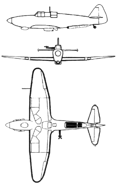 Three side view of the Boulton Paul Defiant TT I/III target tug.